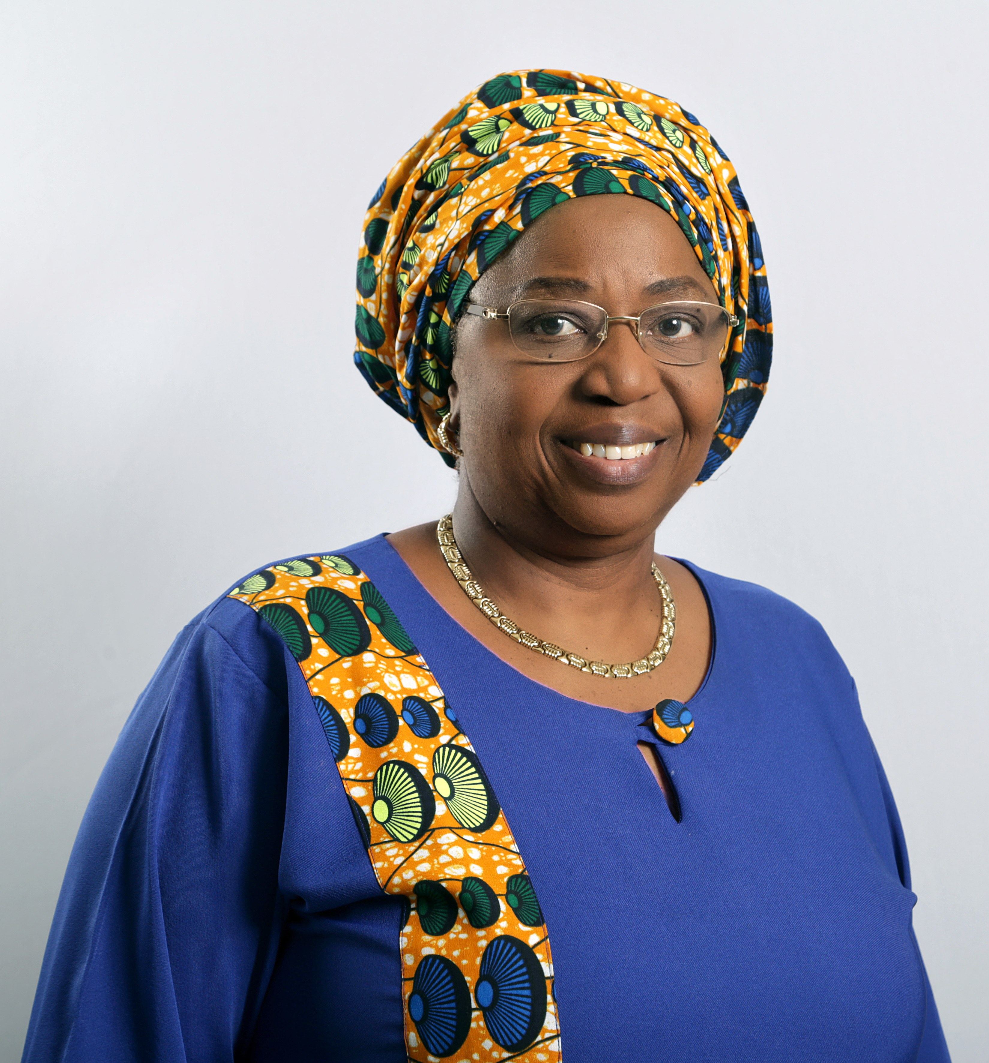 Photo by Hervé Cortinat